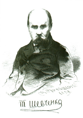 The portrait of T. Shevchenko by artist M. Mikeshyn, created after Shevchenko's photo for the publication of "Kobzar" (1860)